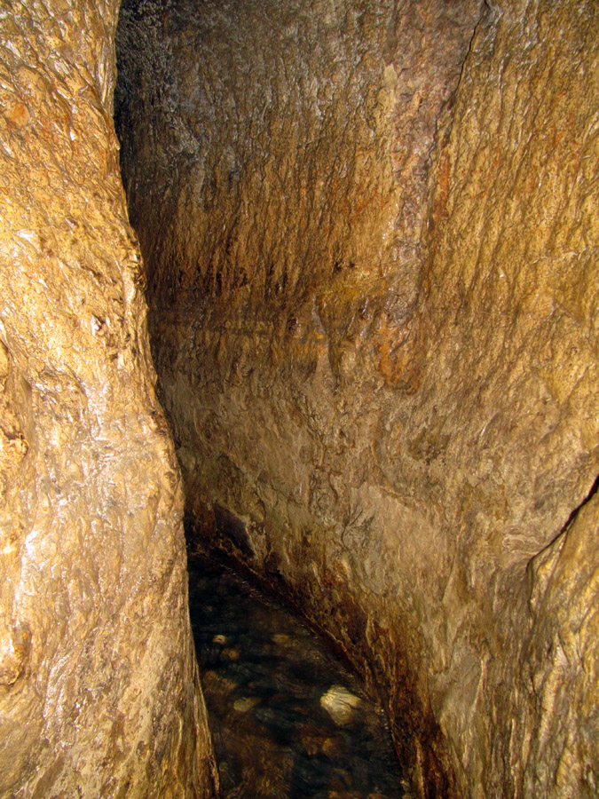 Hezekiah's Tunnel